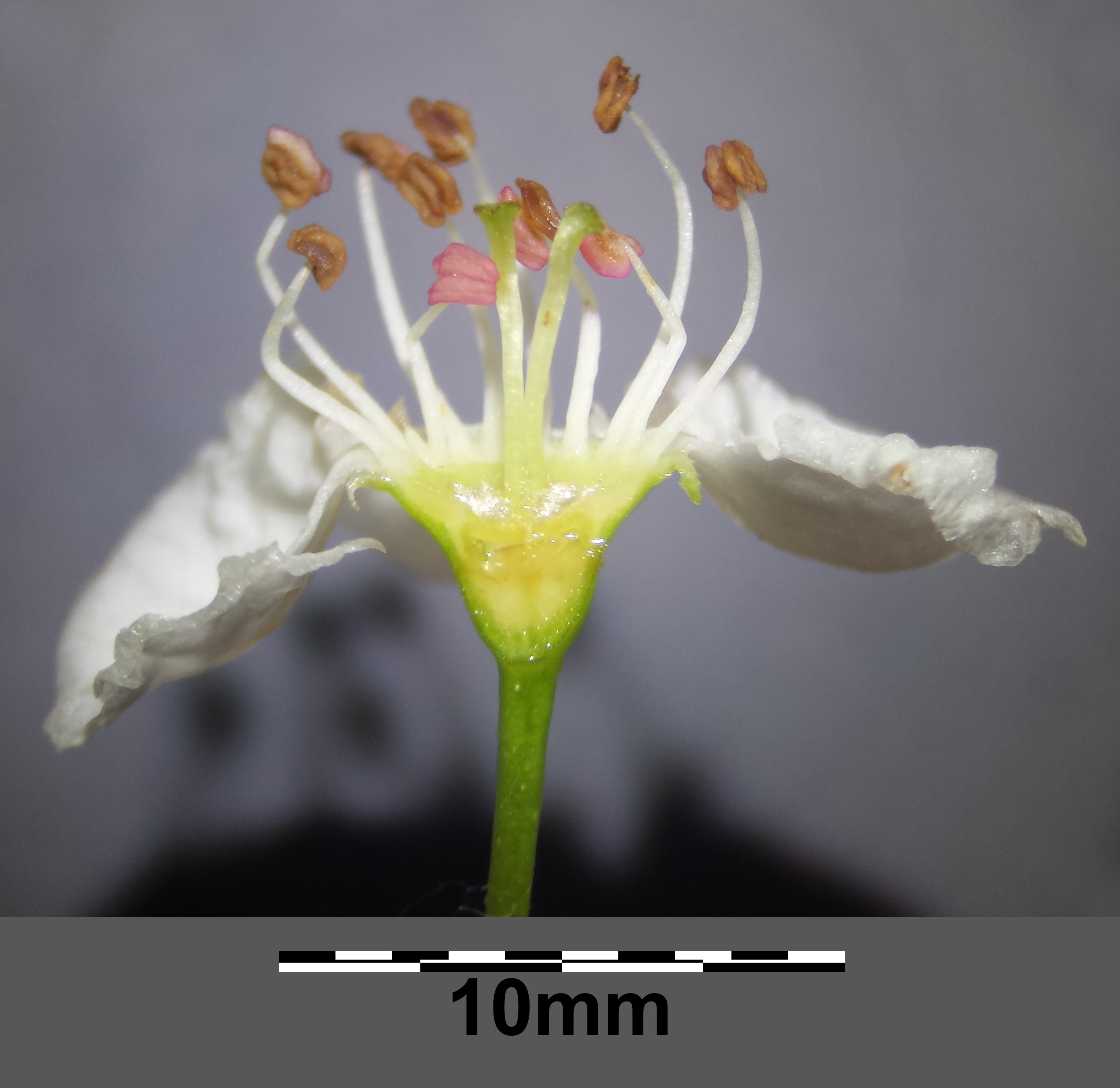 Flower, opened Taxonym: Crataegus laevigata (subsp. laevigata) ss Fischer et al. EfÖLS 2008 ISBN 978-3-85474-187-9 Location: Rohrwald, district Korneuburg, Lower Austria - ca. 330 m a.s.l. Habitat: Carpinion betuli